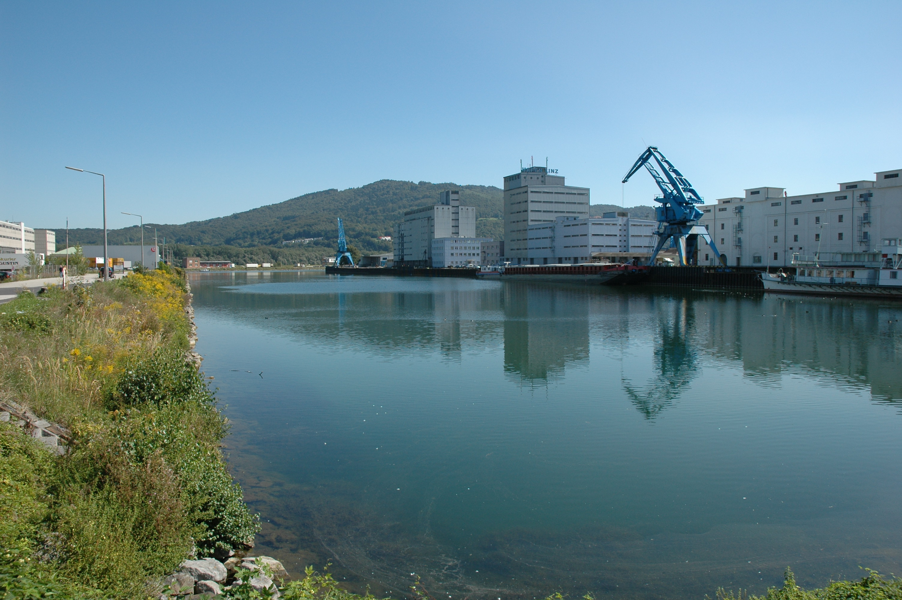 Austria, Linz, Danube